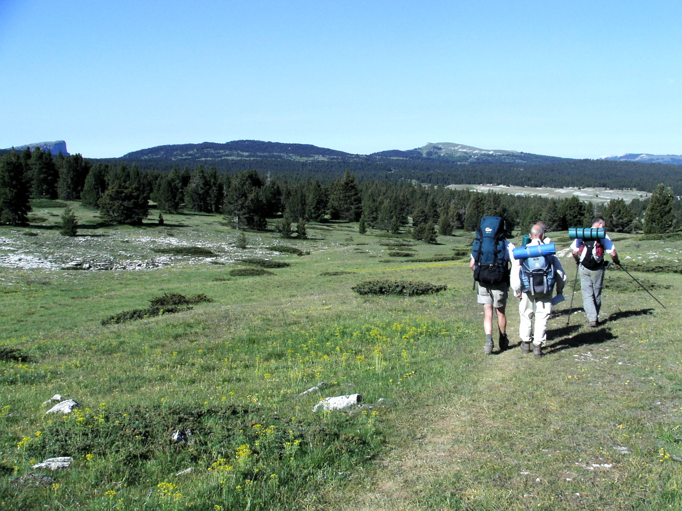 Hikers on the GR 91, Hauts Plateaux du Vercors, France